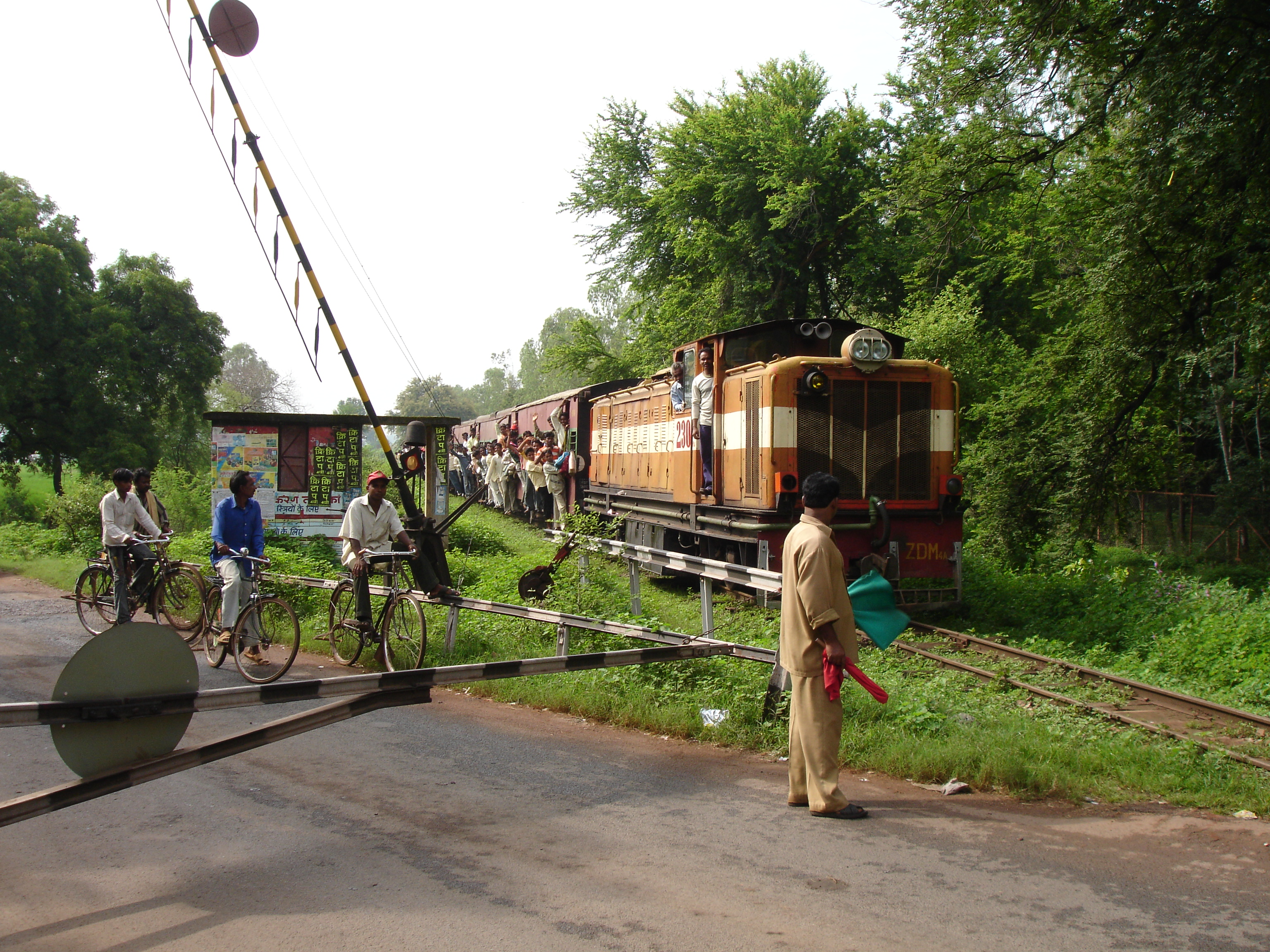 Narrow Gauge Train towards capital city Raipur (Chhattisgarh, India)